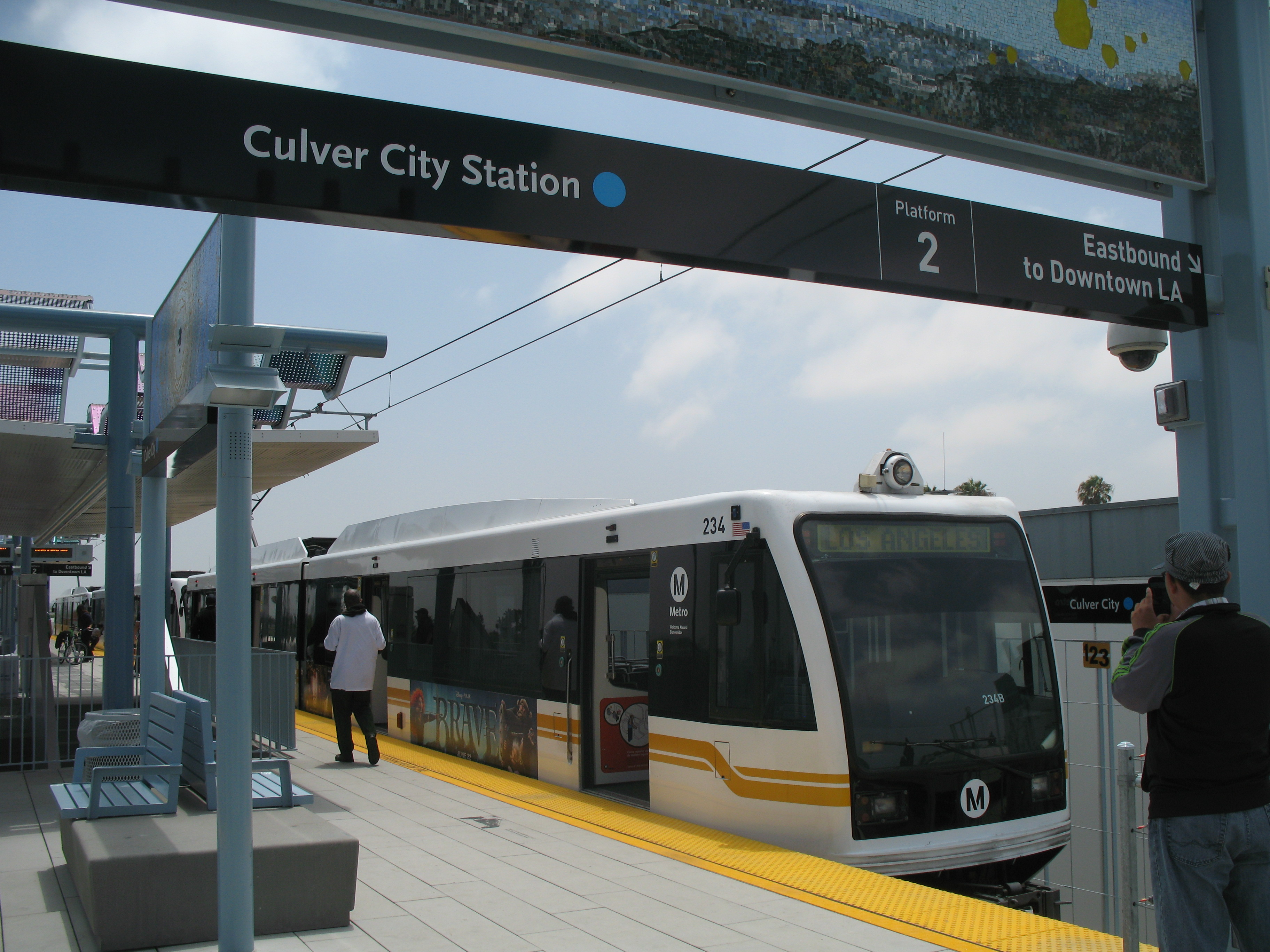 Metro Expo Line Culver City Station platform looking east shortly after noon on the opening day. A three-car Siemens P2000 train is in sight.